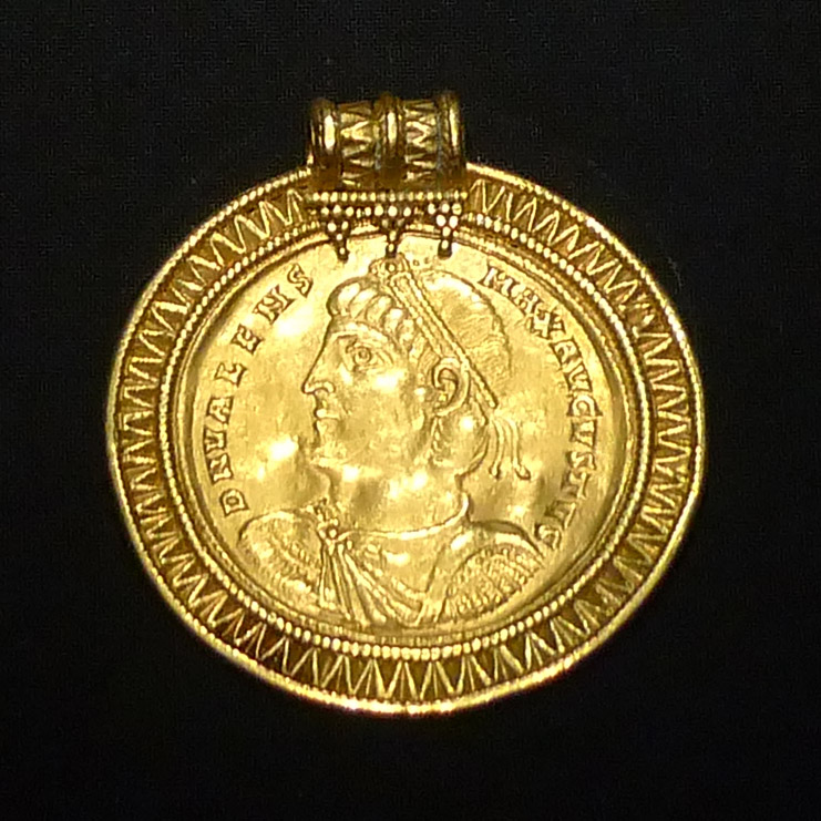 Roman gold medal of Emperor Constantius II, probably made 347-55 AD. Part of the treasure of Szilágysomlyó (Şimleu Silvaniei), c. 525-550 AD.